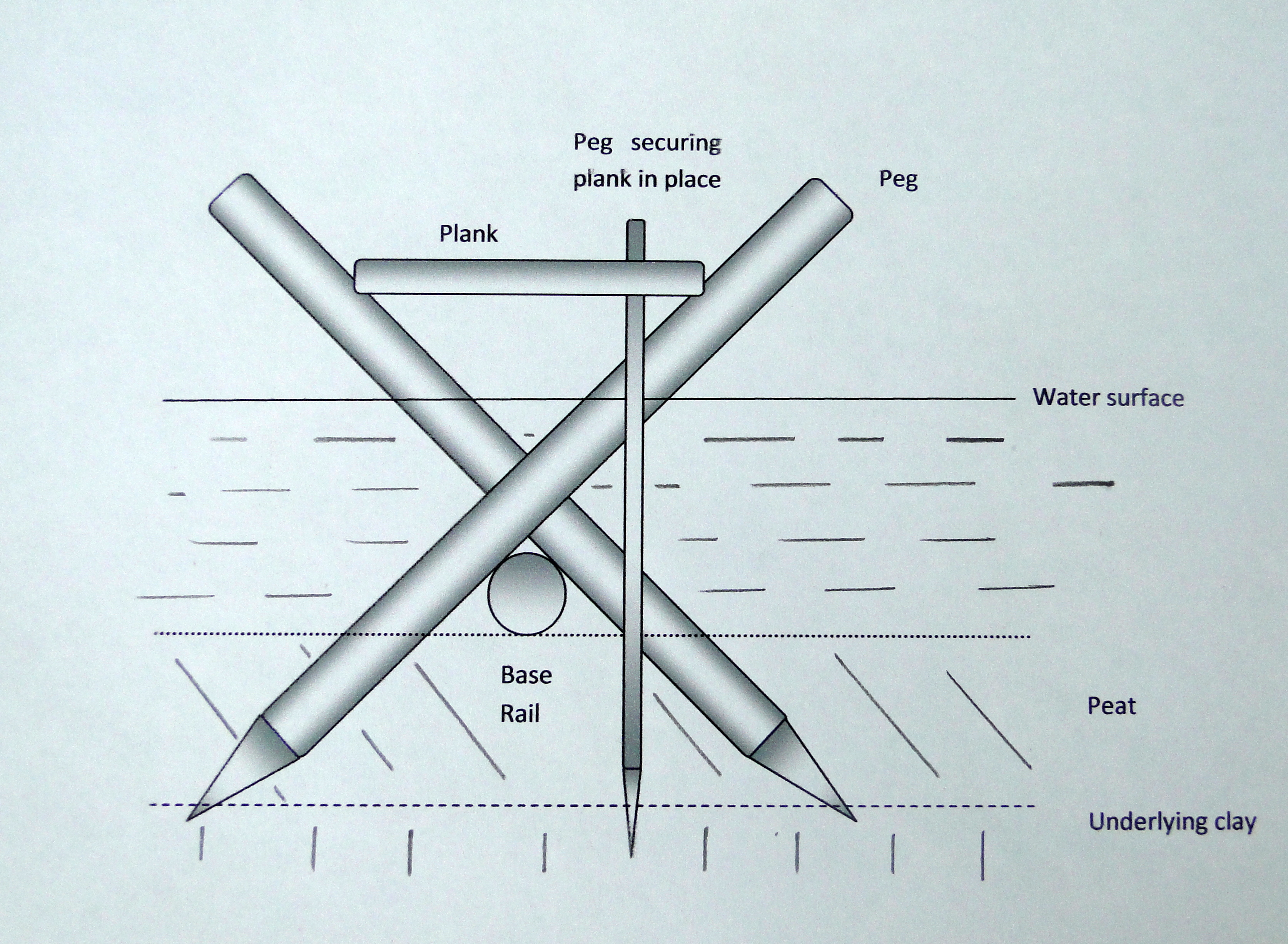 Cross section of Sweet track. This is a diagramatic representation with neat lines for clarity - the actual components of the Sweet track were roughly hewn with stone tools.